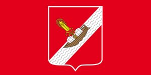 Flag of Vialejka